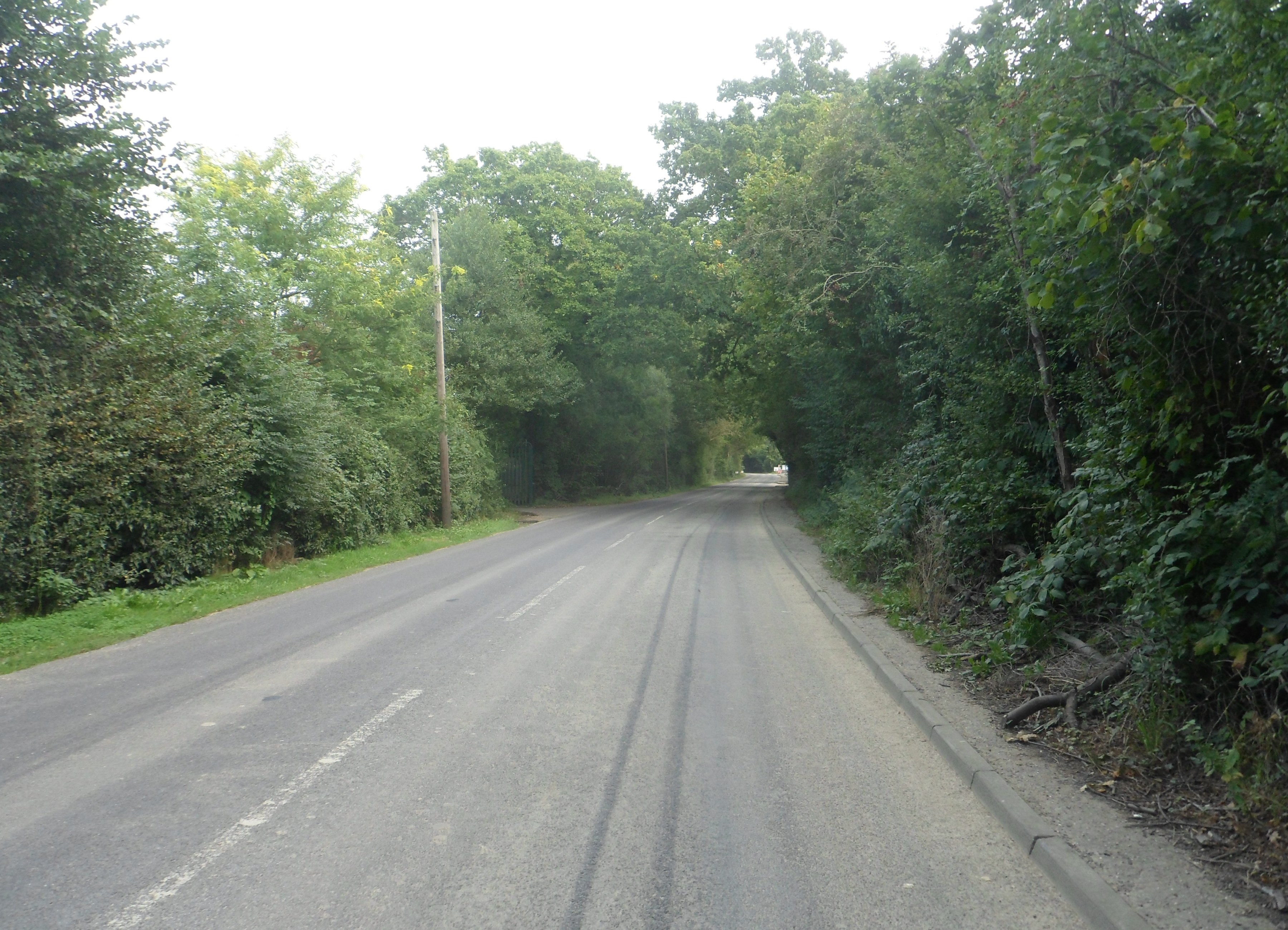 One of a series of photos chronicling the development of Crawley New Town's 14th residential neighbourhood, Forge Wood.This view looks southeastwards along Steers Lane from a point very near the junction with Radford Road. Just out of shot to the left is Tinslow Farm, a Grade II-listed farmhouse. The land to the right is currently vacant but is about to be developed as part of Phase 1 of the four-phase development of 1,900 houses, school, community facilities, shops etc. In the far distance can be seen preparatory work for the construction of the first access road to the first houses. At the date of the photo, one house had been built.